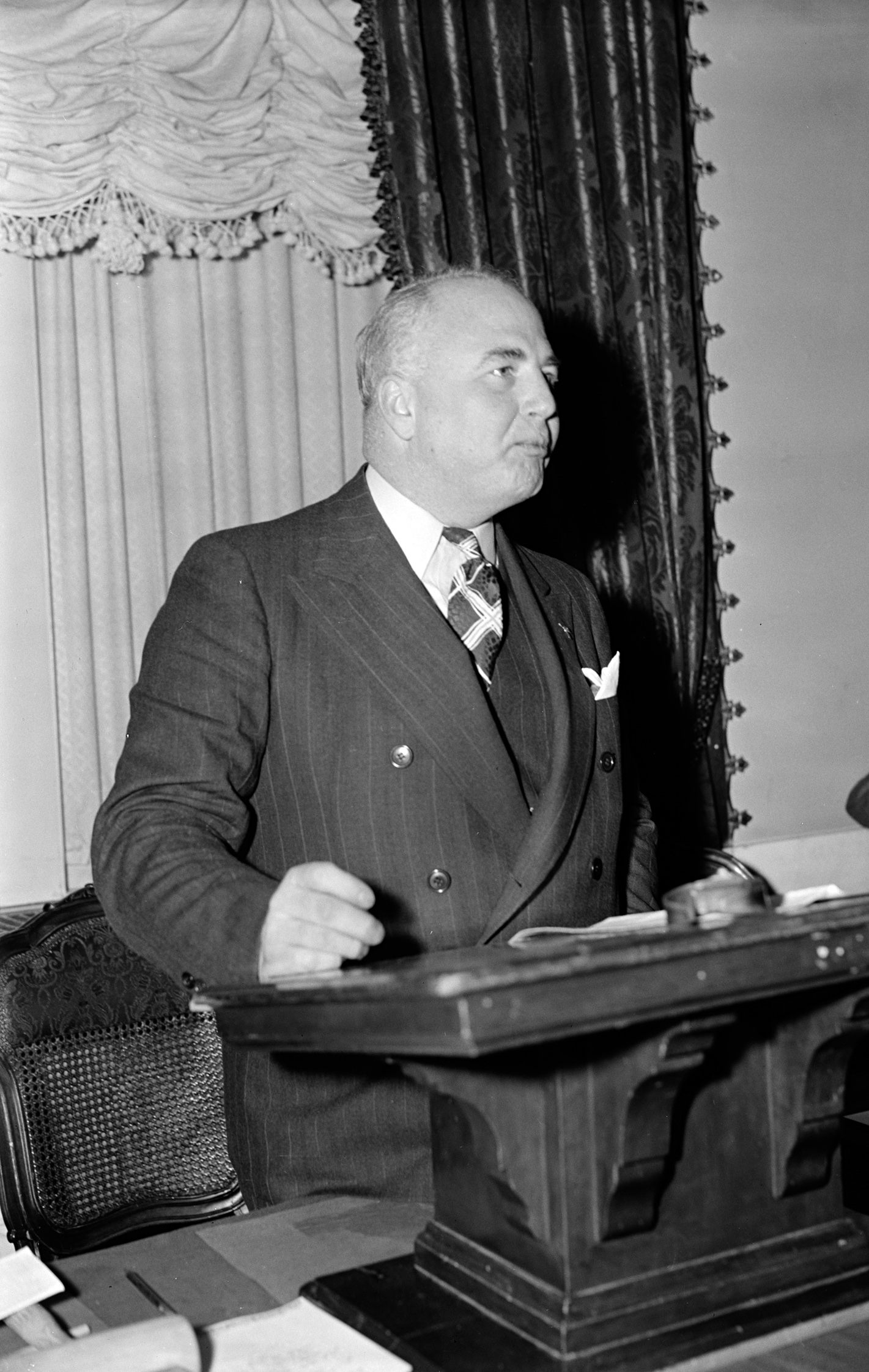 Melvin Maas, US Representative from Minnesota